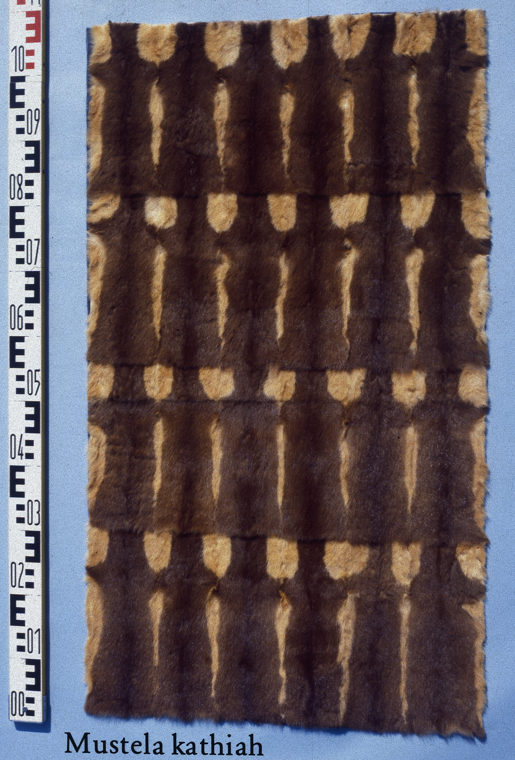 Yellow bellied weasel (Mustela kathiah), fur plate. Fur skin collection, Bundes-Pelzfachschule, Frankfurt/Main, Germany